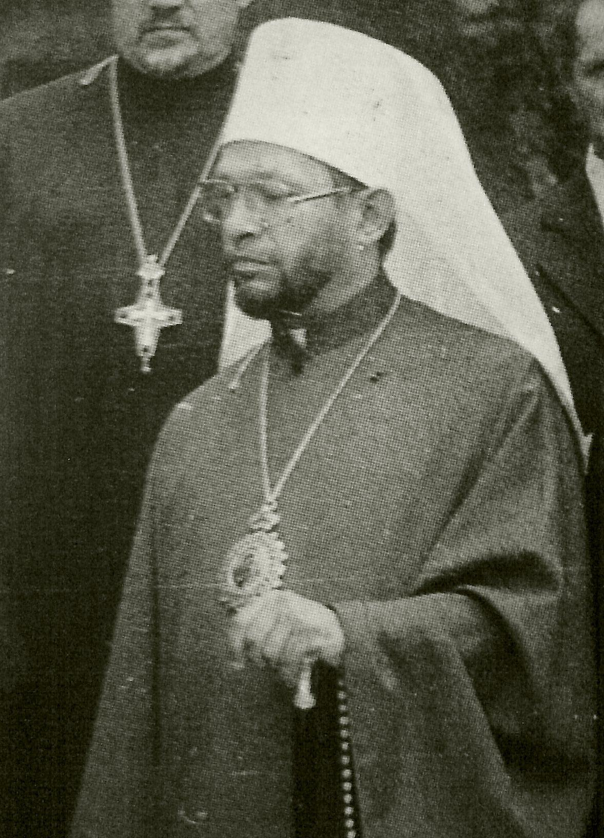 Head of the Orthodox Church in America, metropolita Theodosius (Lazor) in Białowieża, during his visit to Polish Autocephalous Orthodox Church in 1983